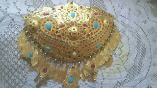 سینه ریز بلوچی در شهرستان سراوان